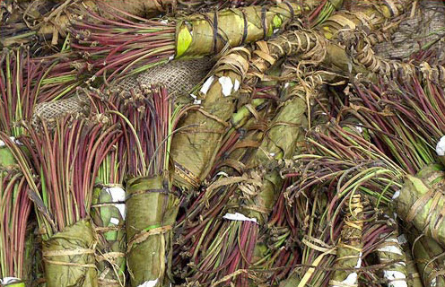 Bundles of Khat July 26, 2006: Operation Somalia Express was an 18-month investigation which included the coordinated takedown of a 44-member international narcotics-trafficking organization responsible for smuggling more than 25 tons of khat ?- worth more than $10 million ?- from the Horn of Africa to the United States. The indictment represents the largest khat-trafficking prosecution in United States history.